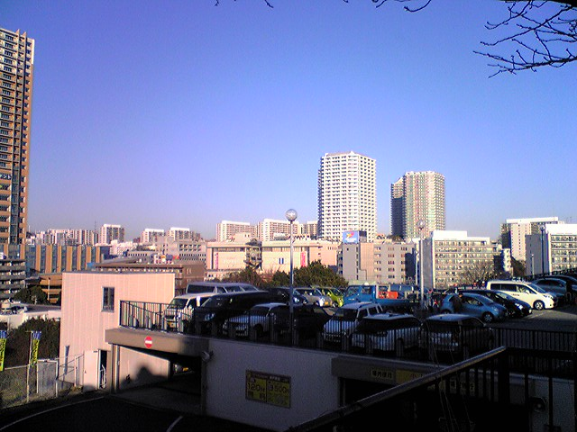 higashitotsuka